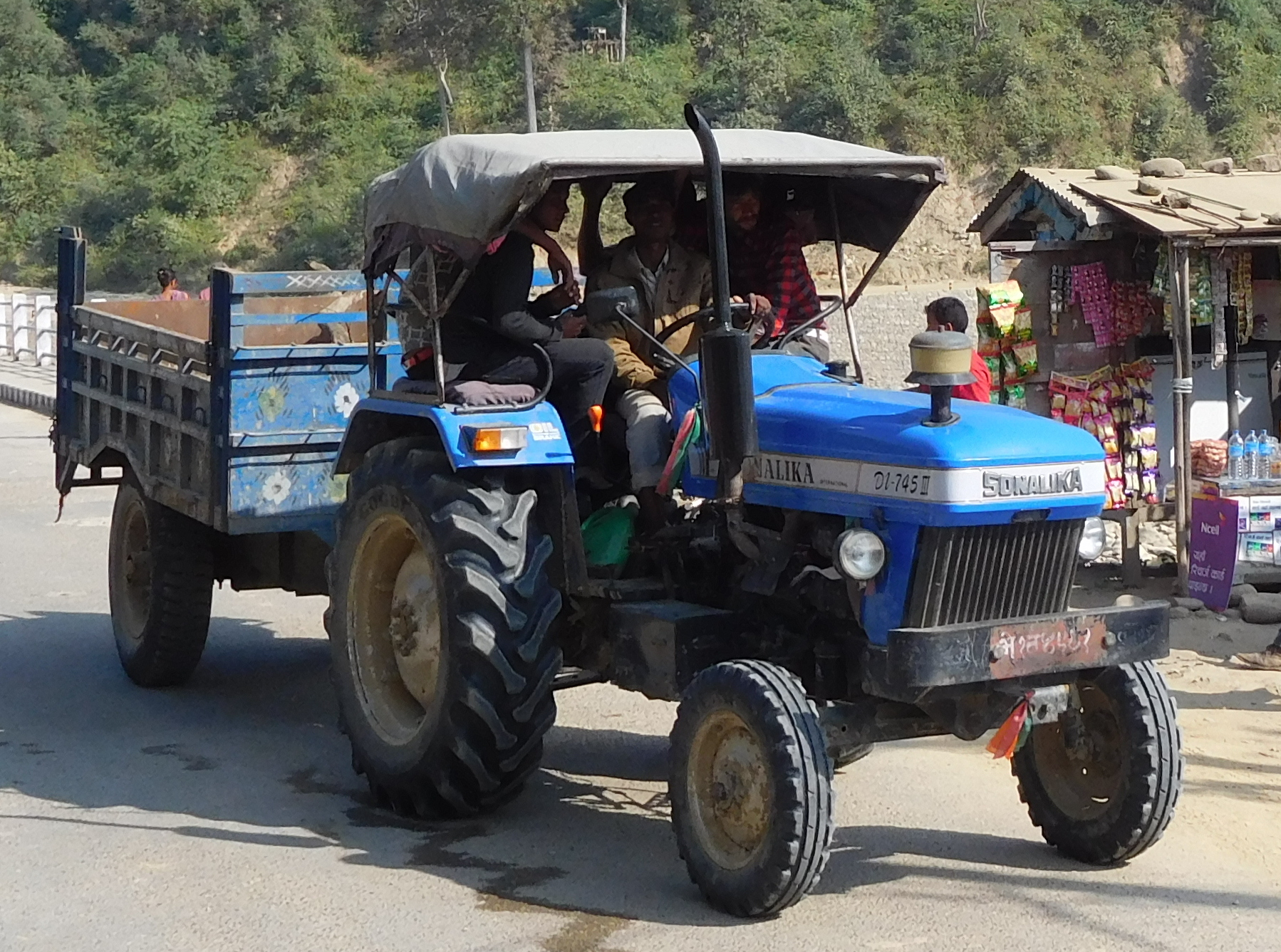 Babai bridge on the Ratna Rajmarg H12, Bardiya District, Nepal.